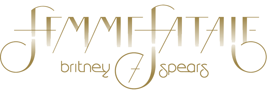 Logo for Britney's Femme Fatale album